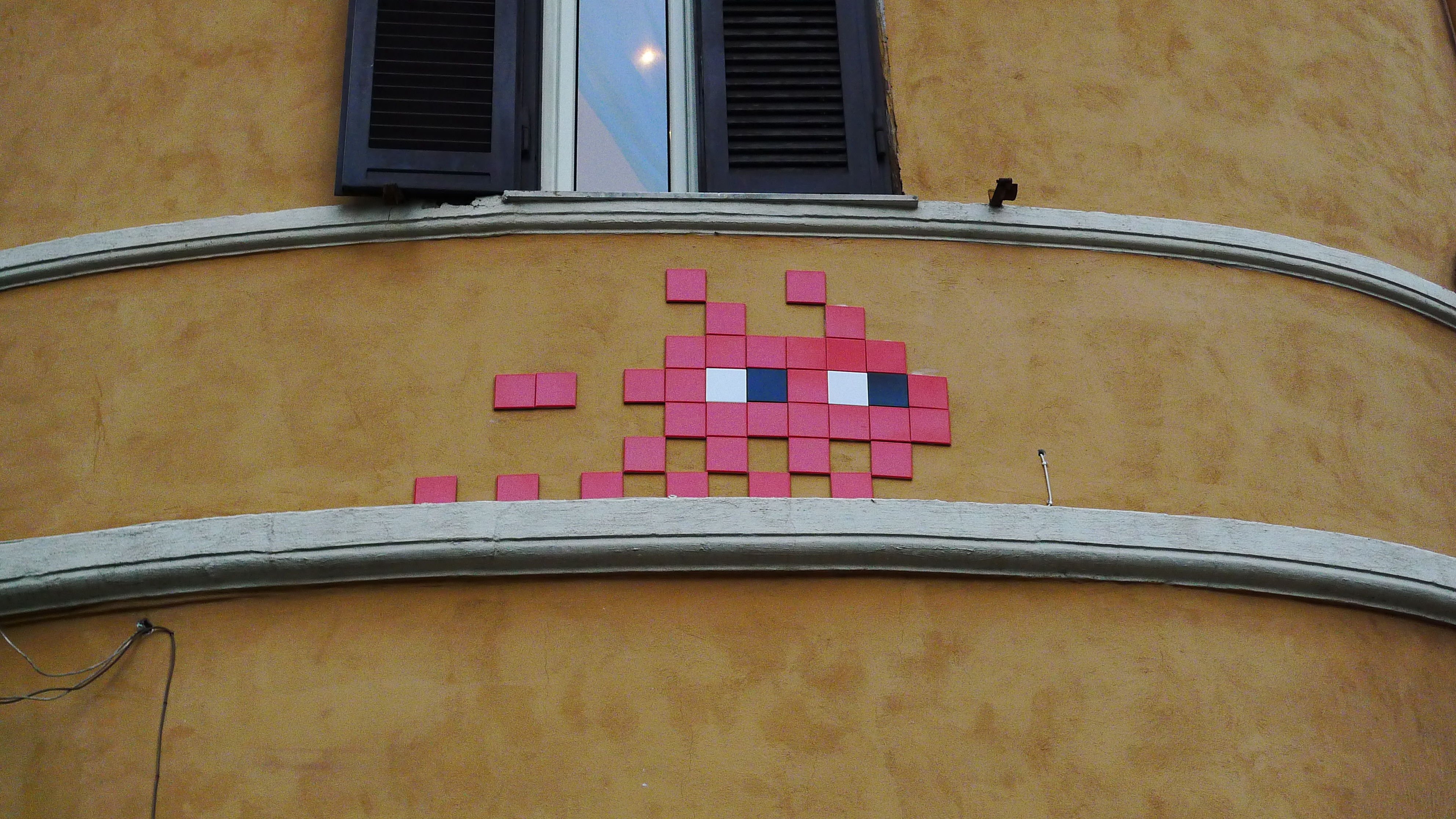 Space invader^in via l'Aquila, Roma, Italy